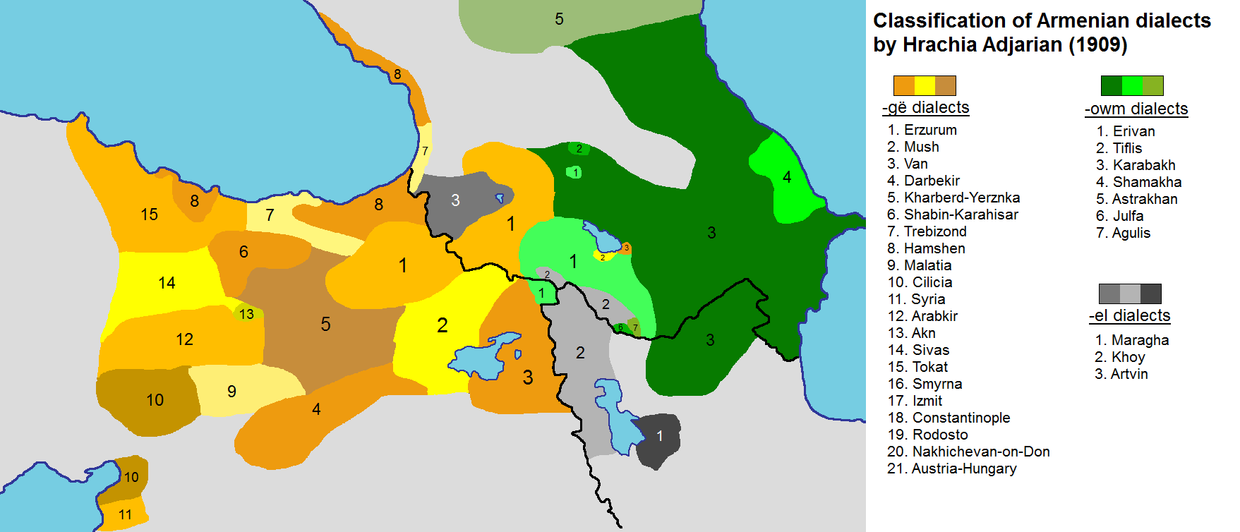 Armenian dialects according to H. Adjarian's Classification des dialectes arméniens, 1909. Boundaries as of 1878 treaty between Ottoman Empire and Russia. Map of the Armenian dialects in early 20th century: -owm dialects, corresponding to Eastern Armenian. -el dialects. -gë dialects, corresponding to Western Armenian.